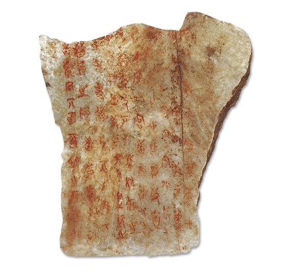 Houma Writing